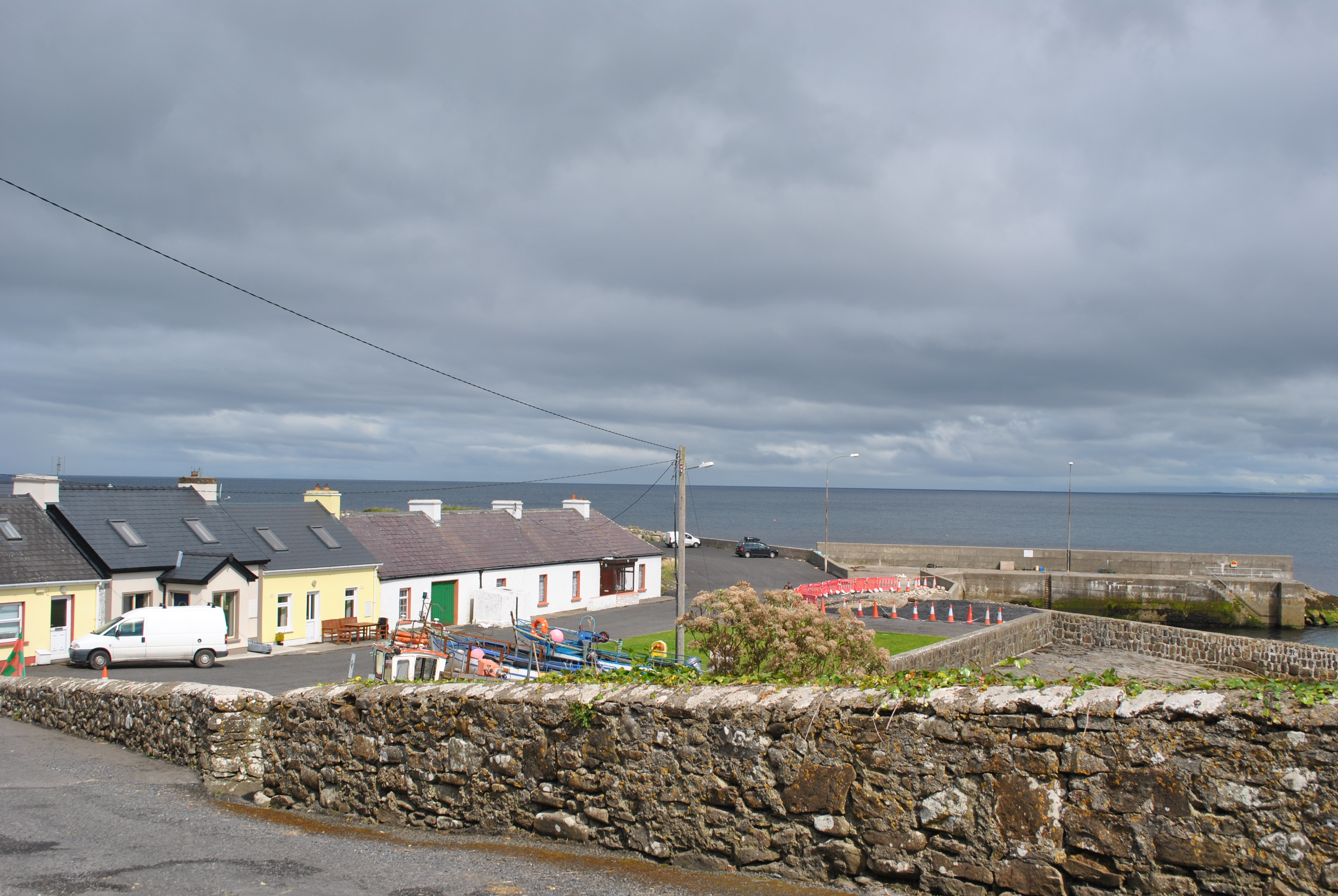 Kilcummin